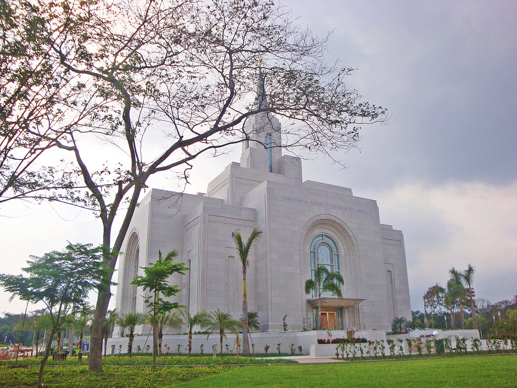 The San Salvador El Salvador Temple of The Church of Jesus Christ of Latter-day Saints in late April 2011.